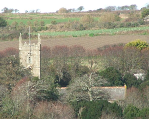 Gulval Church Dedicated to St Gudwal, a 6th century Welsh bishop.